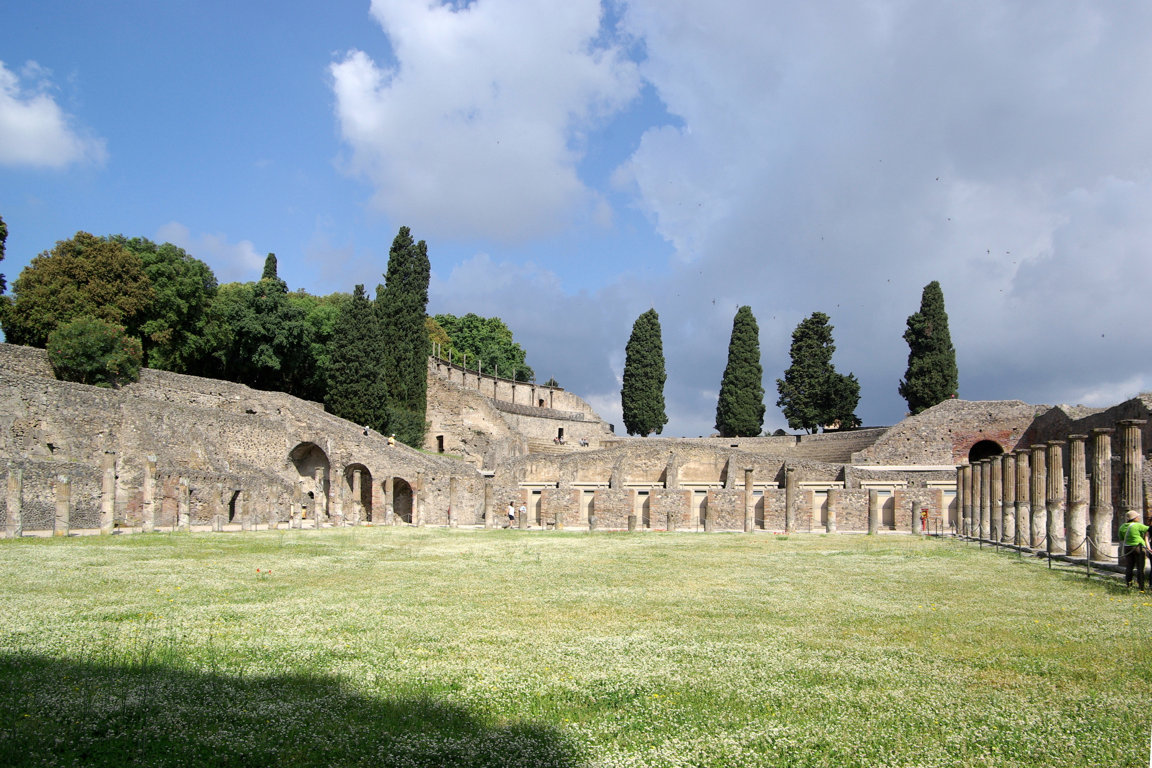 Pompeii, Quadriportico dei Teatri